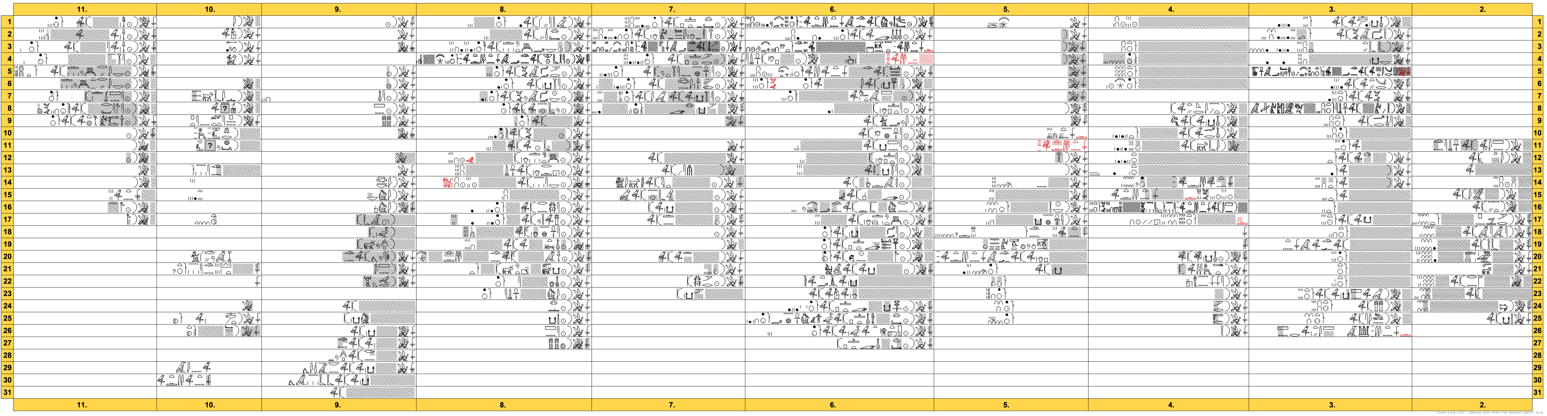 Drawing of the Turin King List (Turin Royal Canon)